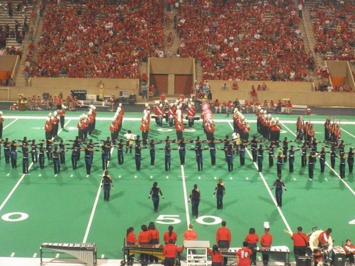 Marching Band on the field performing Halftime show